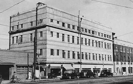 Showa Denko Headquarters in 1948